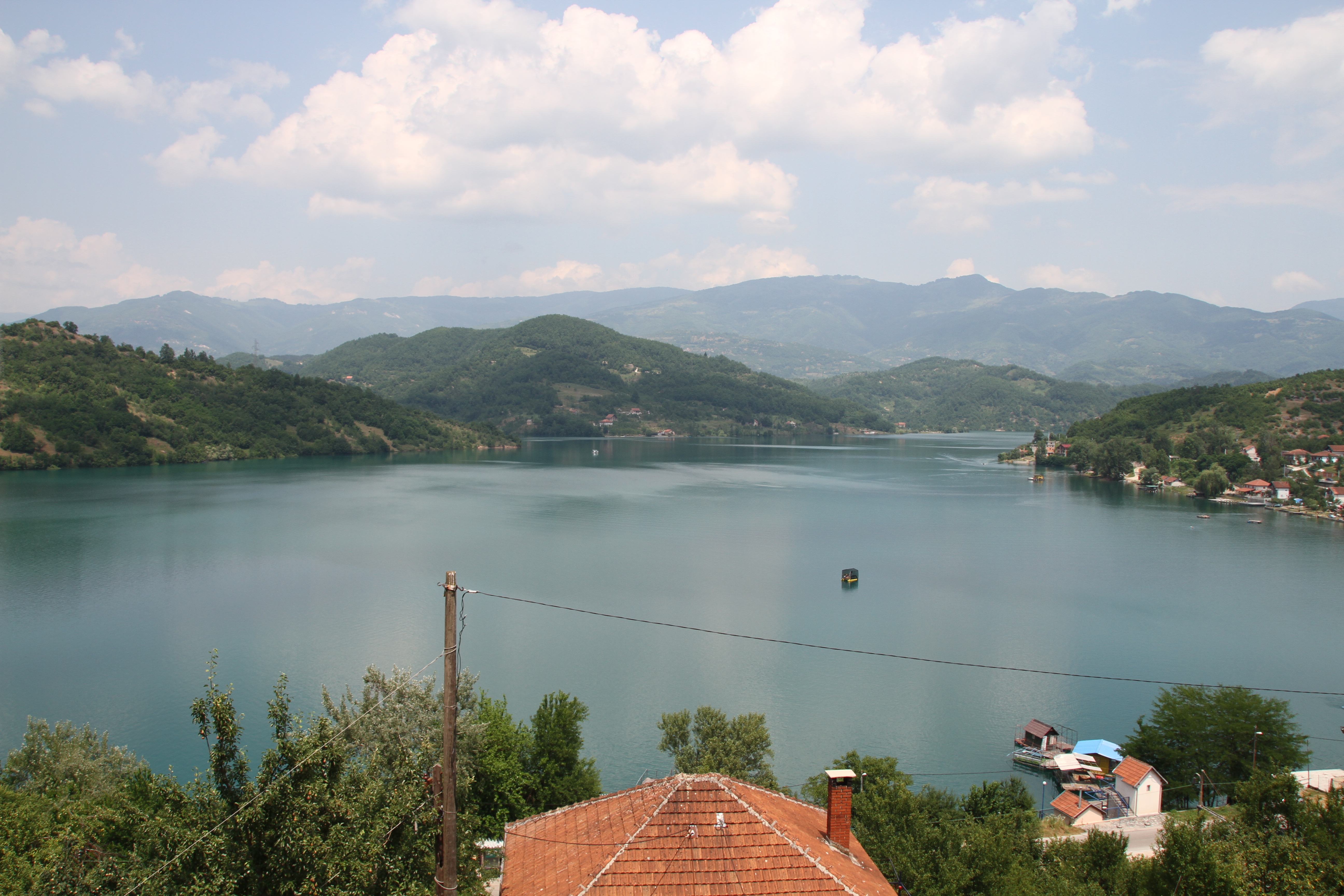 Jablanica Lake is an artificial reservoir on the middle stretch of the river Neretva, southwest of Konjic city, southern Bosnia-hercegovina. The lake is regulated by the Jablanica Dam.